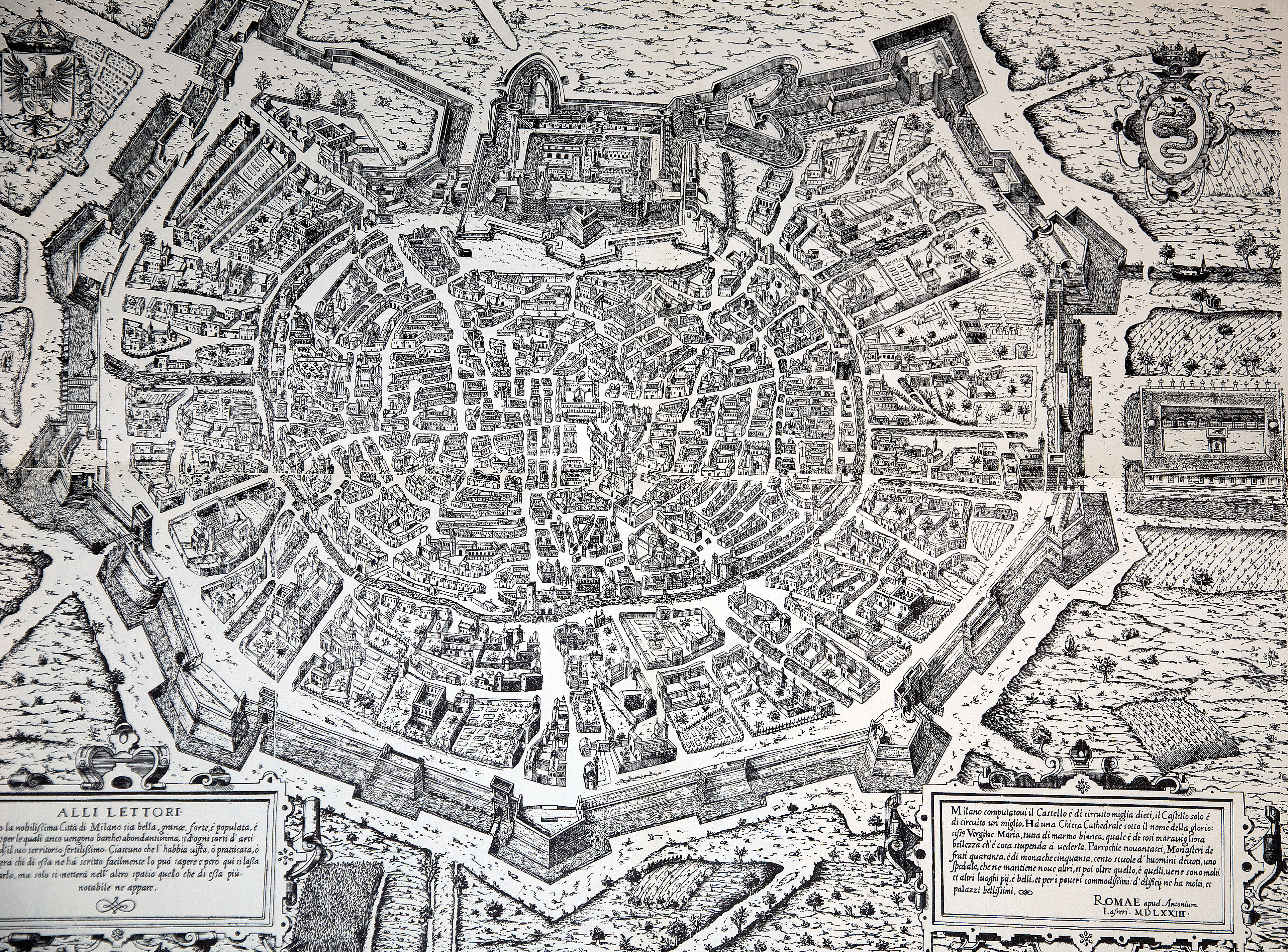 Milan Topography on 1573